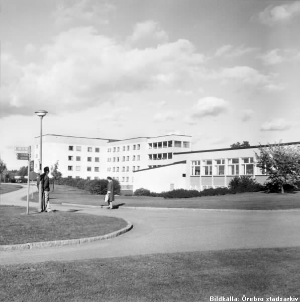 Mellinge hospital in Örebro Sweden 1965.